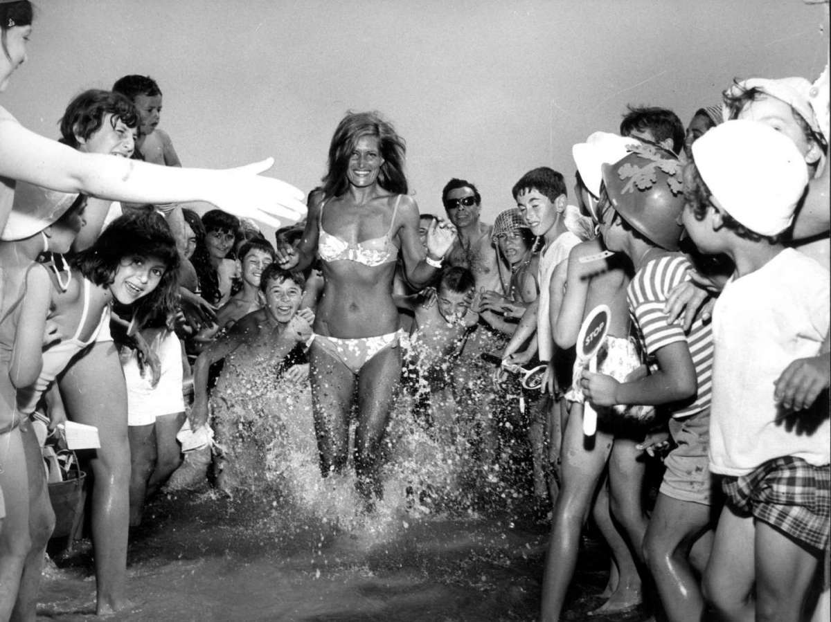 Dalida has fun on the beach of Senigallia, Italy, during a break of the laborious Cantagiro 1968 Tour in July 1968.